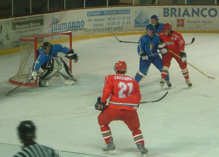 Konstantin Zakharov, belarus ice hockey player